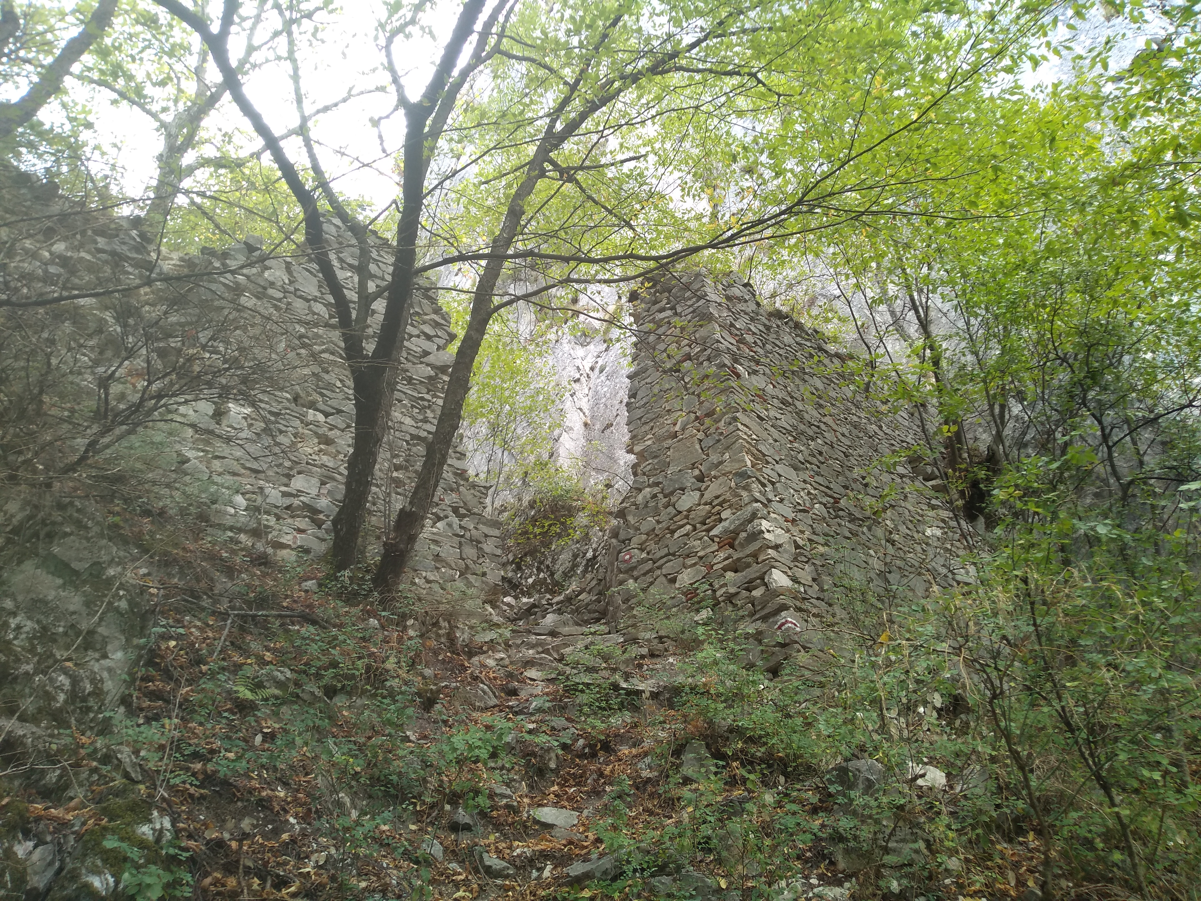 Ruins of the medieval King Marco's town fortress in Matka Canyon, Macedonia